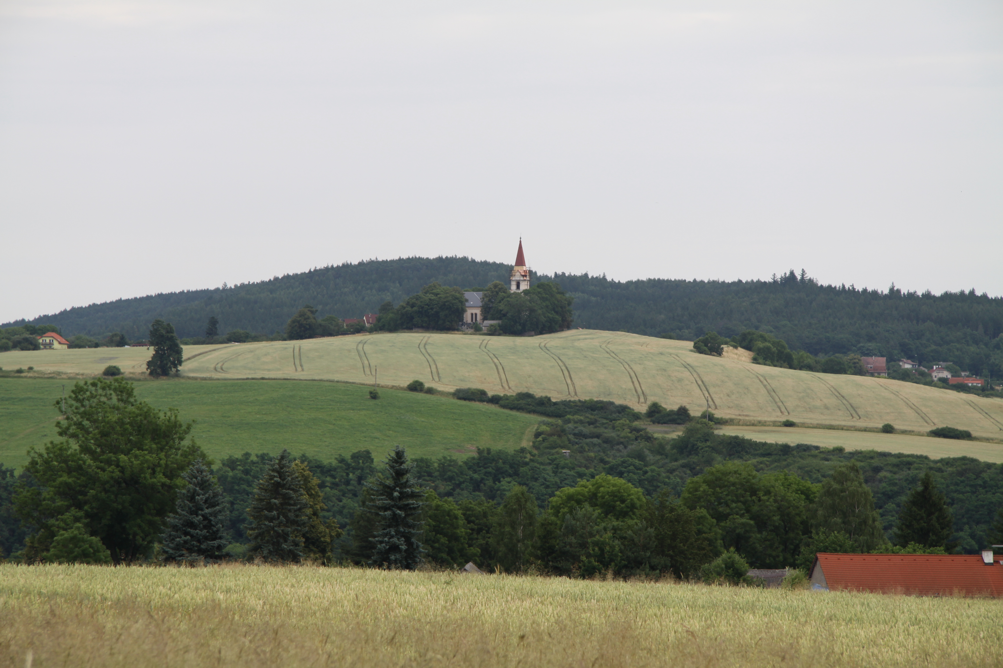 Church of Holy Trinity in Hluboš village in Příbram District, Czech Republic.